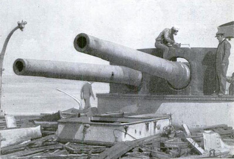 Photograph of workers dismantling one of the USS Brooklyn's main turrets during the scrapping process circa 1922.